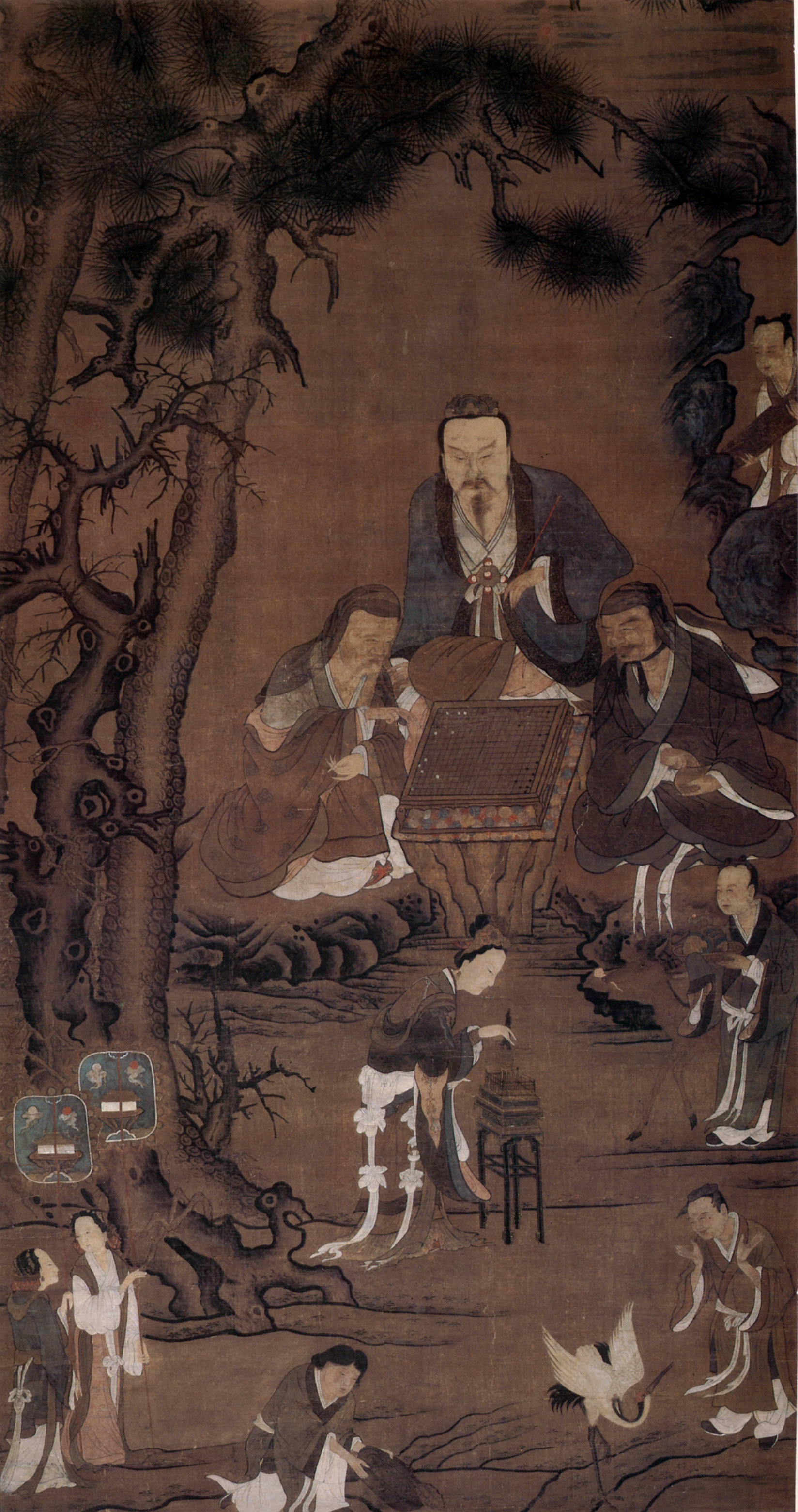 Three_Daoist_Figures_Playing_the_Game_of_Go_by_Zhushi_the_Yuan_dynasty_A_hanging_scroll_Clor_on_silk_owned_by_Nezu_Institute_of_Fine_Art